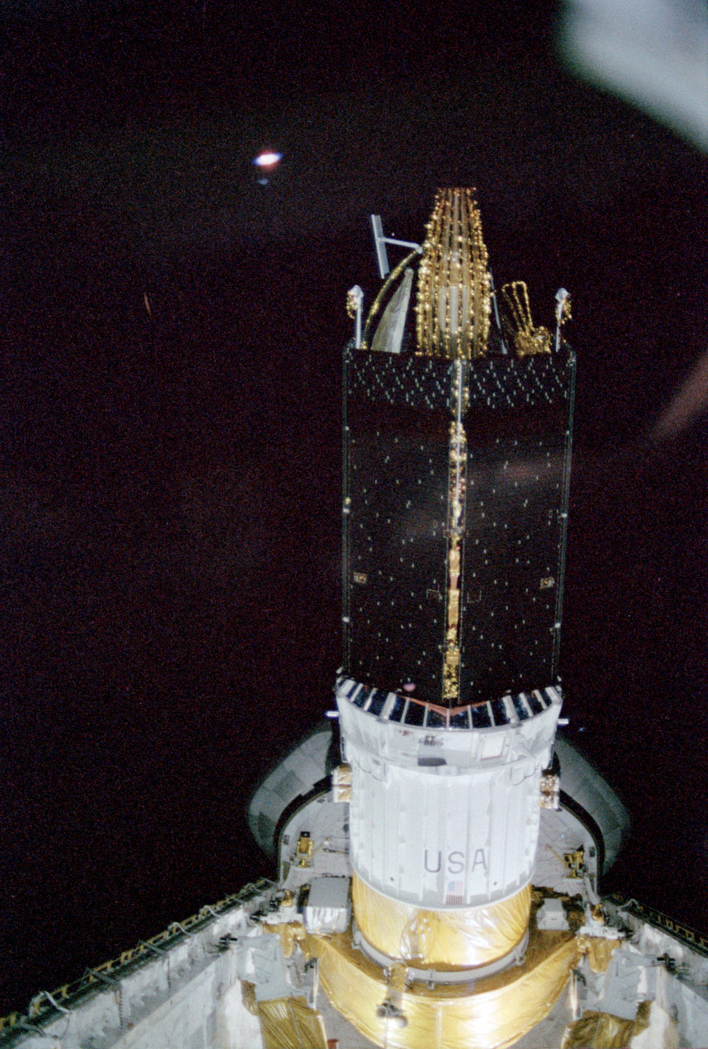 Payload bay views during IUS/TDRS-A pre-deployment procedures Inertial Upper Stage (IUS) and Tracking and Data Relay Satellite (TDRS)-A is raised above payload bay (PLB) by Airborne Support Equipment (ASE) aft frame [electromechanical] tilt actuator (AFTA) to 58 degree deployment position.